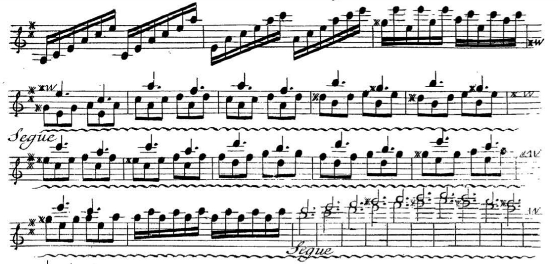 Excerpt from the Capriccio, III movement of the XI violin concerto, showing the violin extension in the high notes